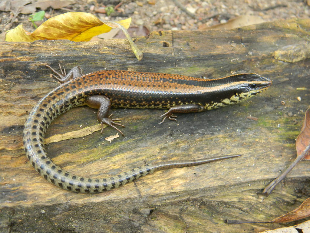 Mesoscincus schwartzei from Marquez de Comillas, Chiapas (Mexico)